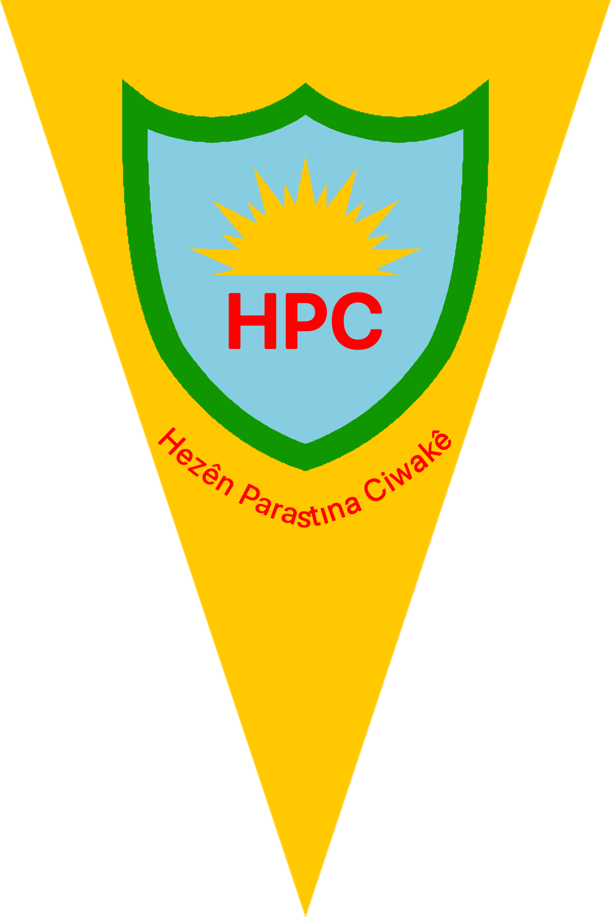 Own work.